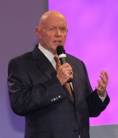 Stephen Covey at the FMI Show, Palestrante on June 22, 2010